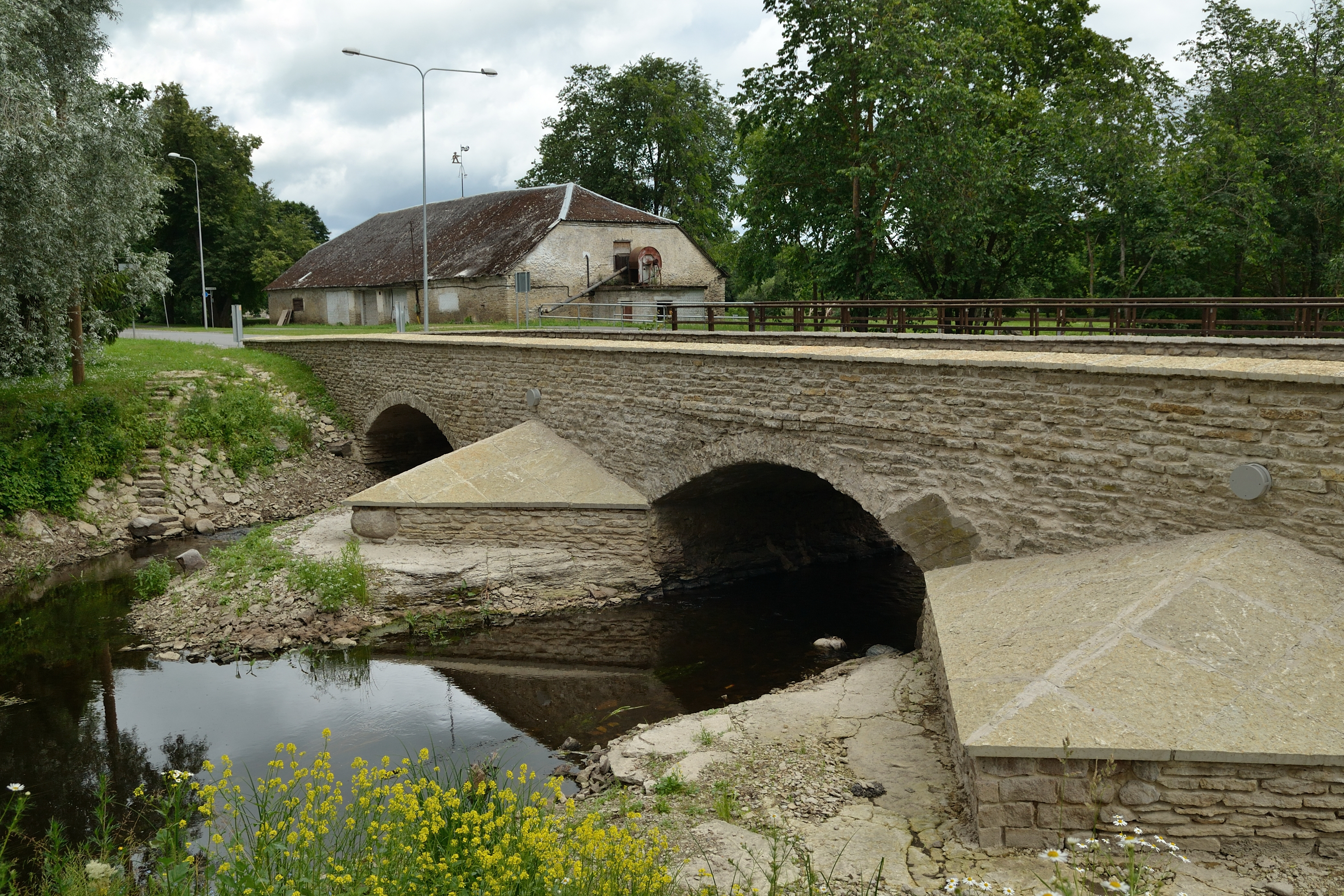 Kostivere manor stonebridge